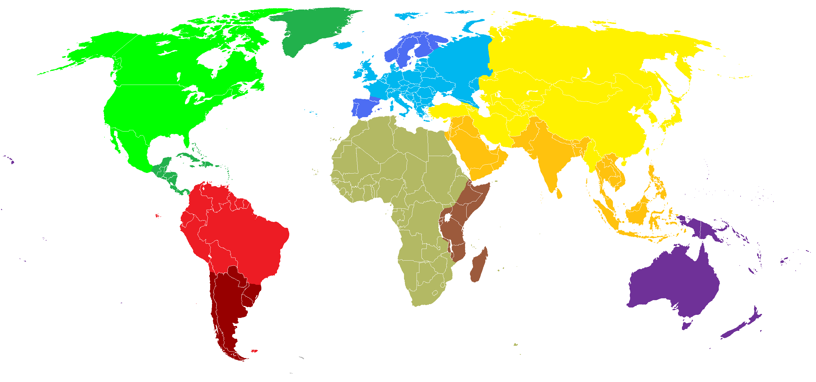 Subcontinents